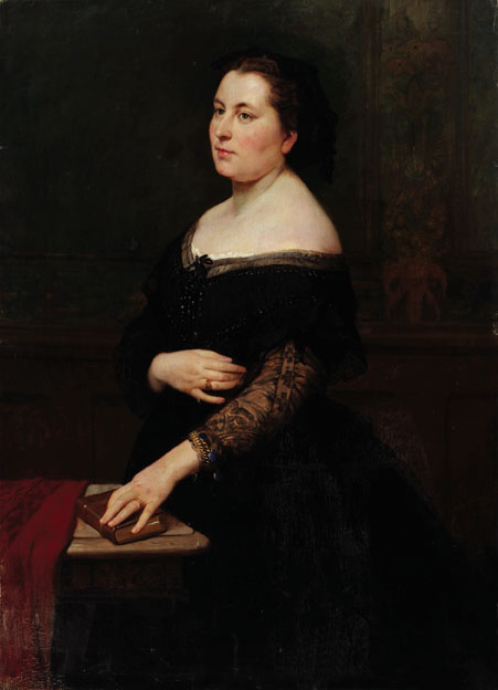 „Kobiety z Modlitewnikiem“ by Marie Wiegmann. Oilpainting 1864.